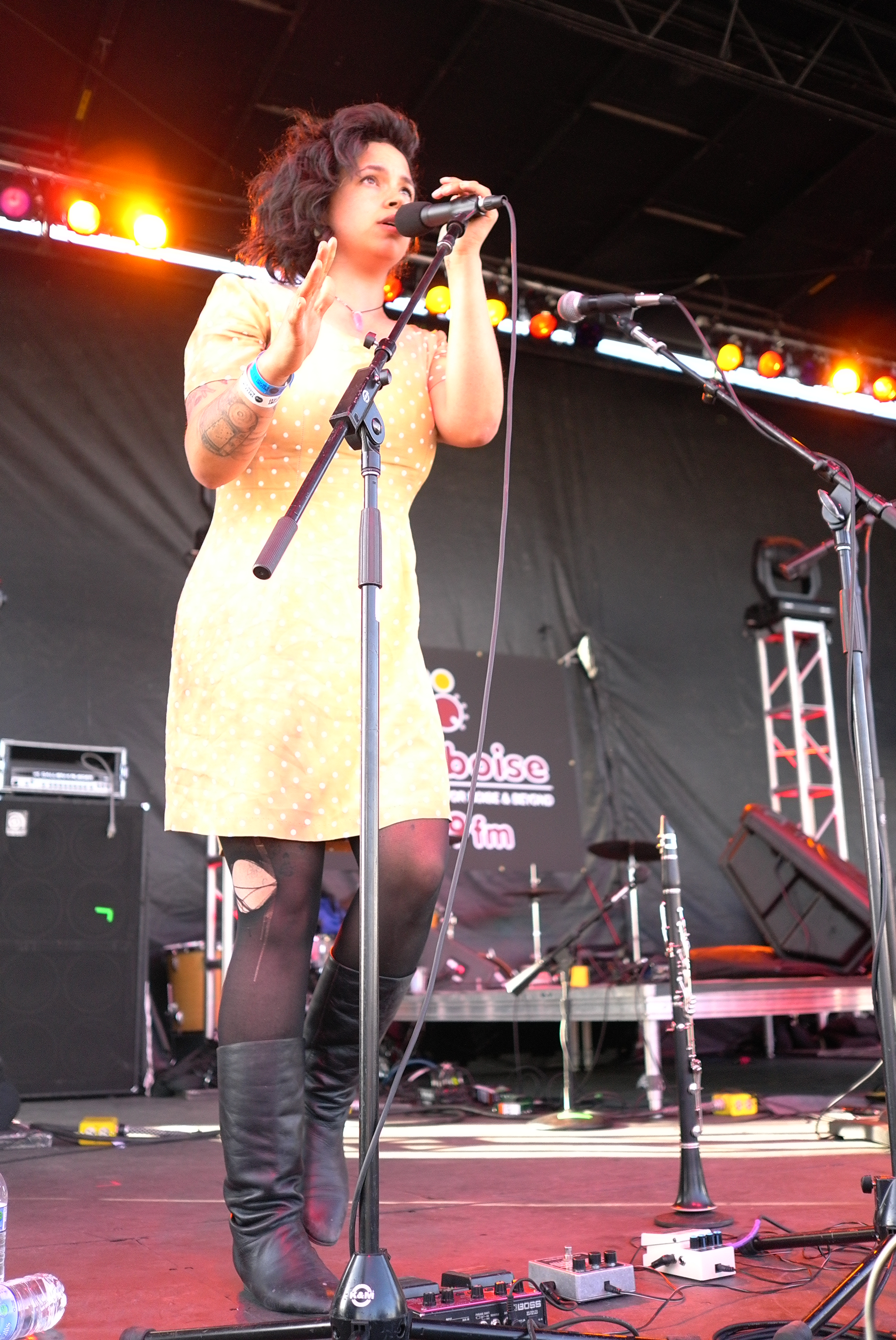 Holland Andrews of AU of Portland, Oregon performs at the inaugural Treefort Music Fest in Boise, Idaho.